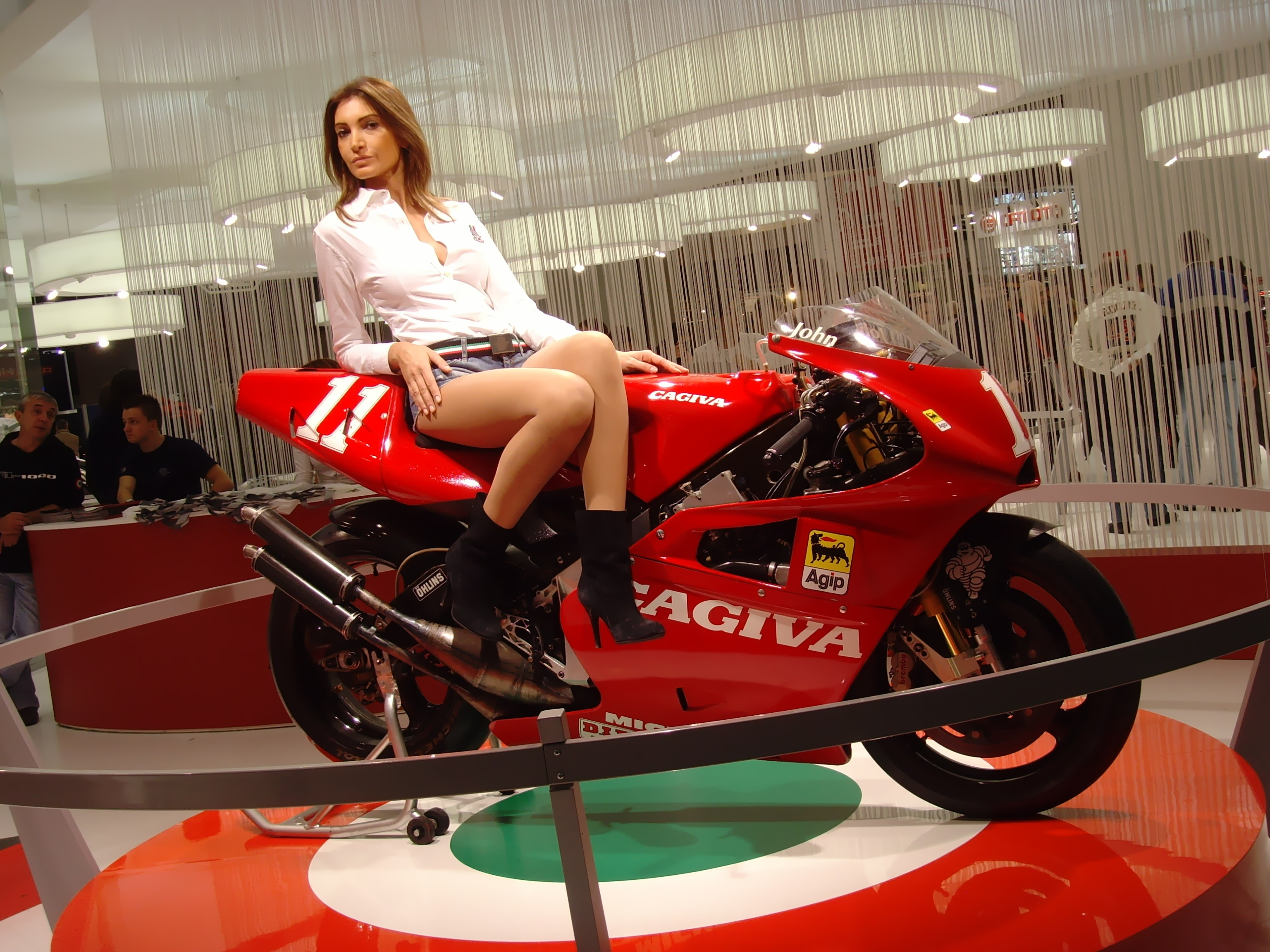 John Kocinski's 1994 Cagiva C594 (Cagiva GP500 series) at 2009 Milan Motorcycle Show.